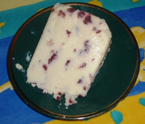 White Stilton with Craneberry